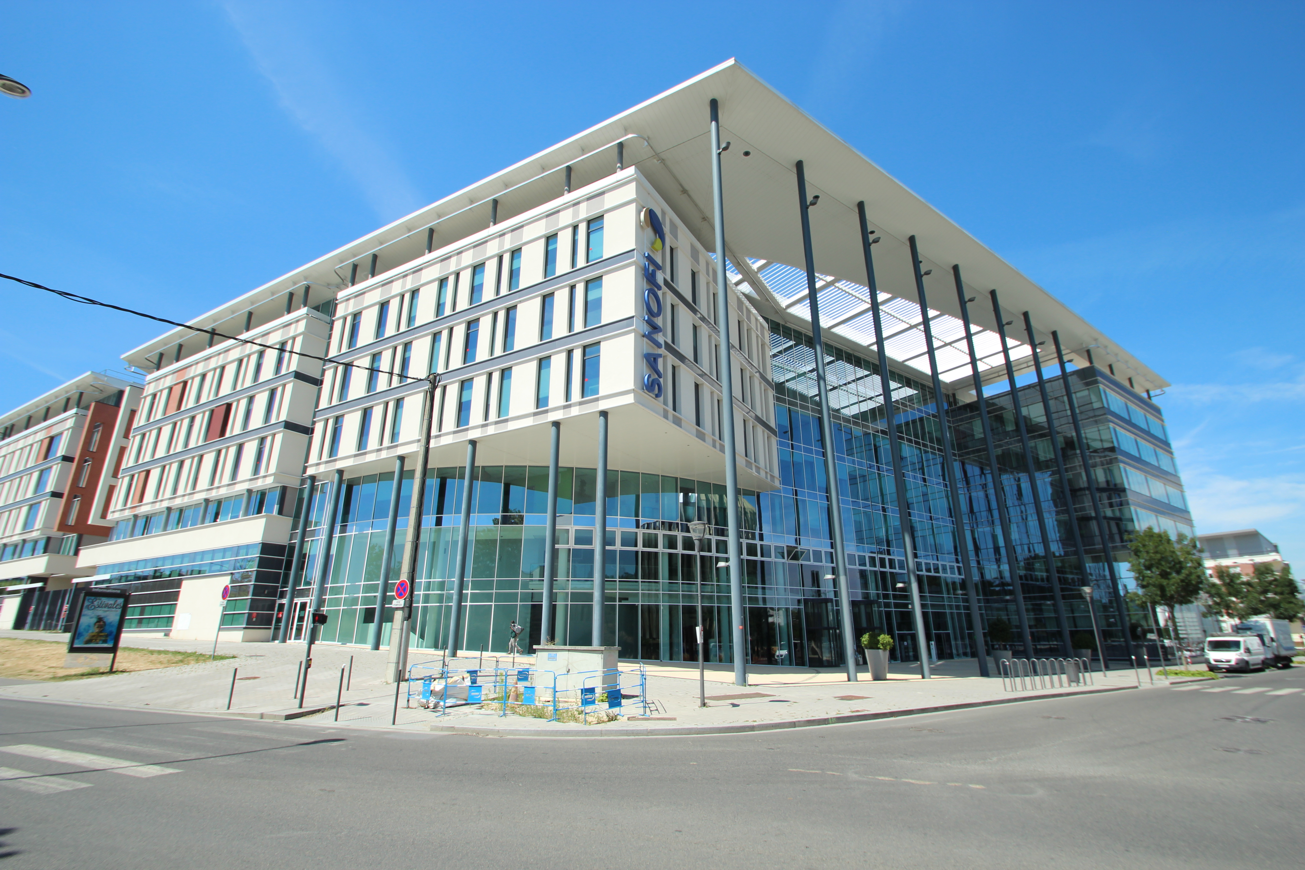 Sanofi building in Massy, Essonne, France.